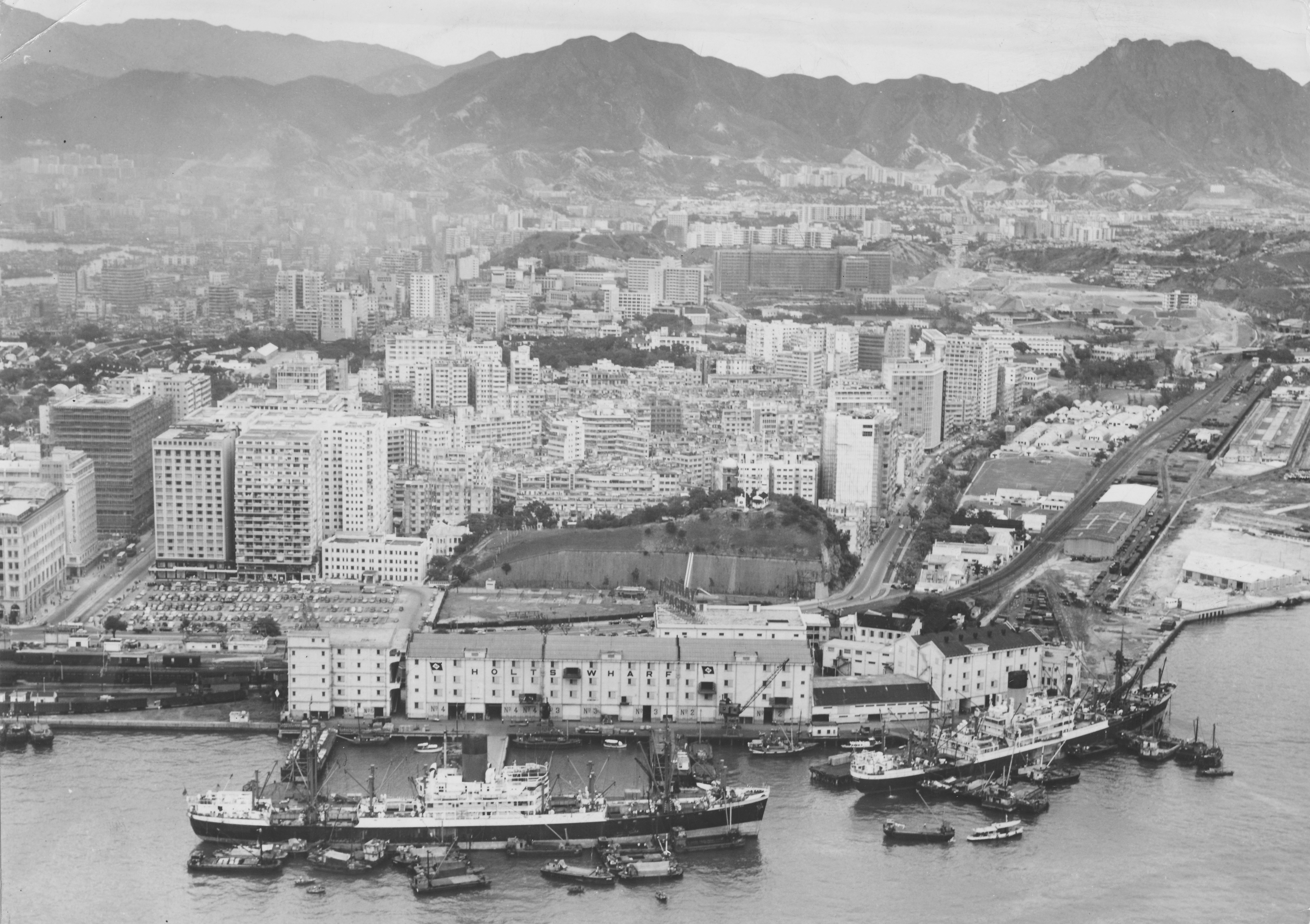 This photo of Tsim Sha Tsui east was taken in 1963, the mountain behind is the Signal Hill. The Holt's Wharf in front was built in the 1910, alongside with the Kowloon-Canton Railway. The place was bought by a developing company and transformed into New World Centre in the 1970s. Recently the location has undergone reconstruction for the Victoria Dockside, which will be used as a multi-purpose complex building and landmark.